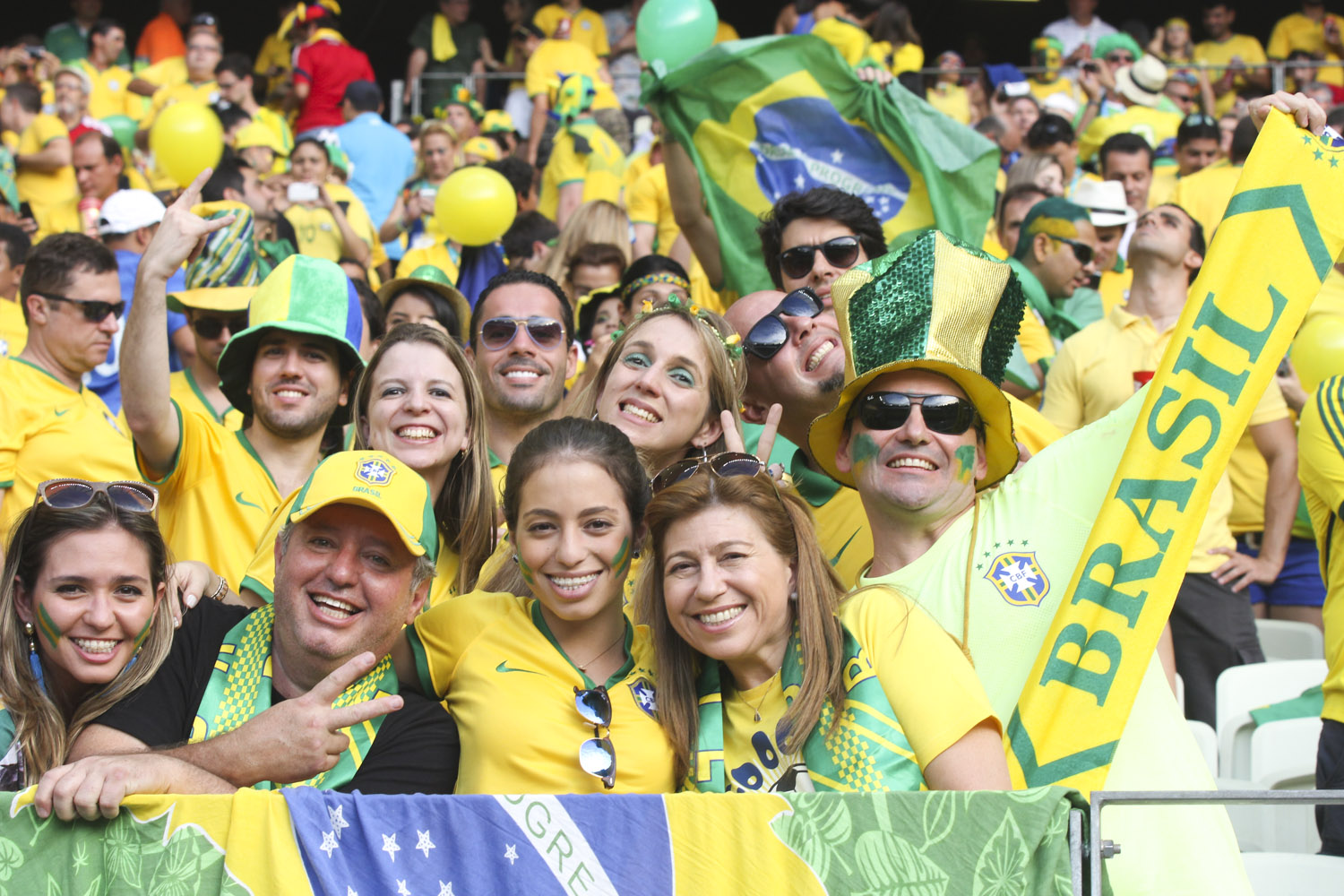 Brazil and Colombia match at the FIFA World Cup 2014-07-04